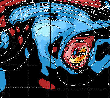 weather charts